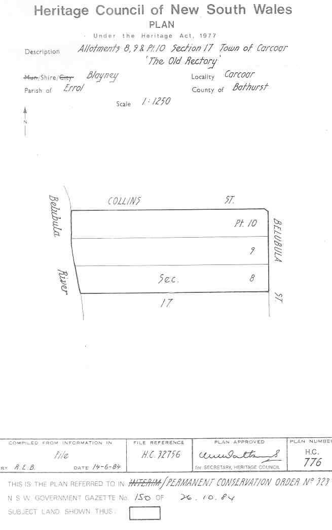 Old Rectory, Carcoar: PCO Plan Number 323